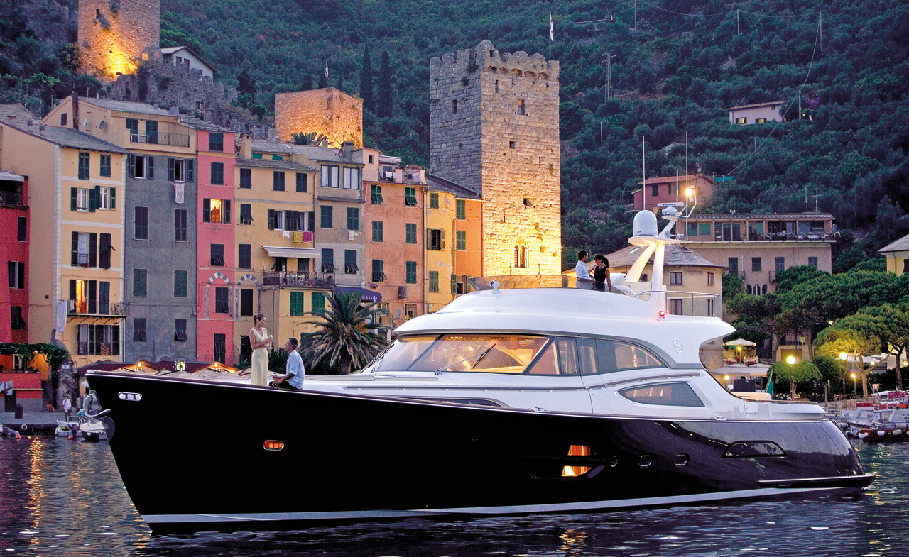 a picture of a Mochi Craft yacht, the Dolphin 74'